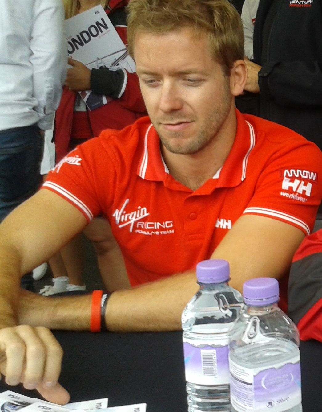 Sam Bird signing autographs for Formula E at Battersea Park circuit, June 2015